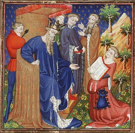 Raoul de Presles presents his translation to Charles V of France Contents: Augustine, La Cité de Dieu (Vol. I). Translation from the Latin by Raoul de Presles Place of origin, date: Paris, Orosius Master and others (illuminators); c. 1410 Material: Vellum, ff. 339, 423x330 (259x179) mm, 48 lines, littera textualis, Binding: 18th-century brown leather; gilt; with coat of arms of Stadholder William V Decoration: 1 two-column miniature (180x180 mm); 10 column miniatures (85/75x80/75 mm); decorated initials with border decoration (ff. 1r, 6r, 33v, 76v, 141r, etc.) Added: 4 illustrations in the margin (coat of arms, emblems, motto) Provenance: Louis de Luxembourg, conn‚table de France (d. 1475; signature, erased); by descent to his granddaughter Françoise de Luxembourg and her husband Philip of Cleves (d. 1528; coat of arms with label; emblems, motto; signature); purchased in 1531 from Philip's estate byHenry III, Count of Nassau (d. 1538); by descent to the Princes of Orange-Nassau, the later Stadholders, at The Hague; carried off in 1795 to Paris by the French and restituted to the Koninklijke Bibliotheek in 1816